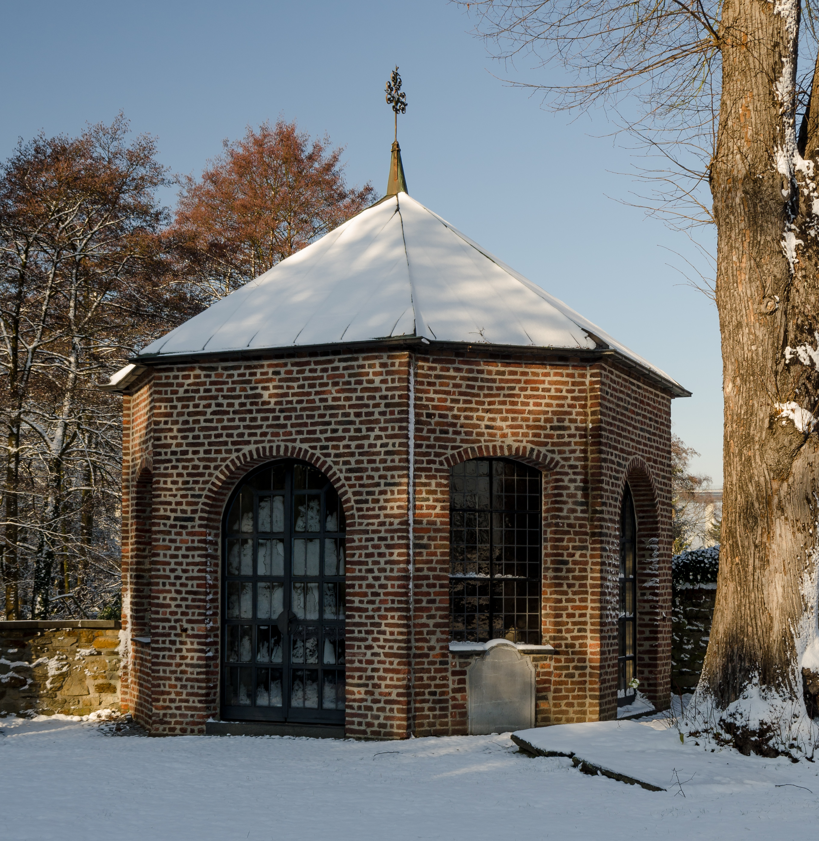 St. Laurentius church, small chapel